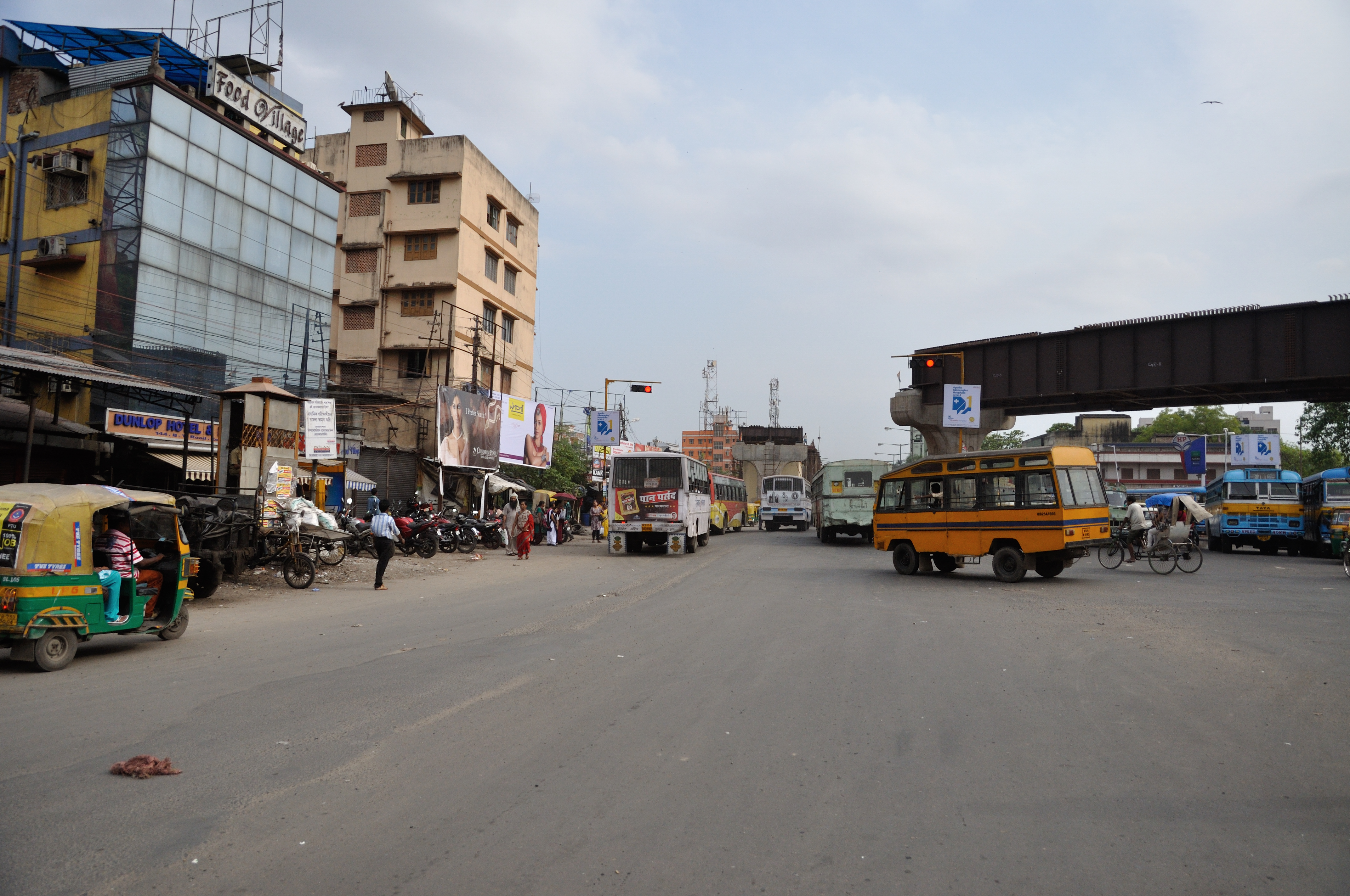 Photographed in West Bengal.